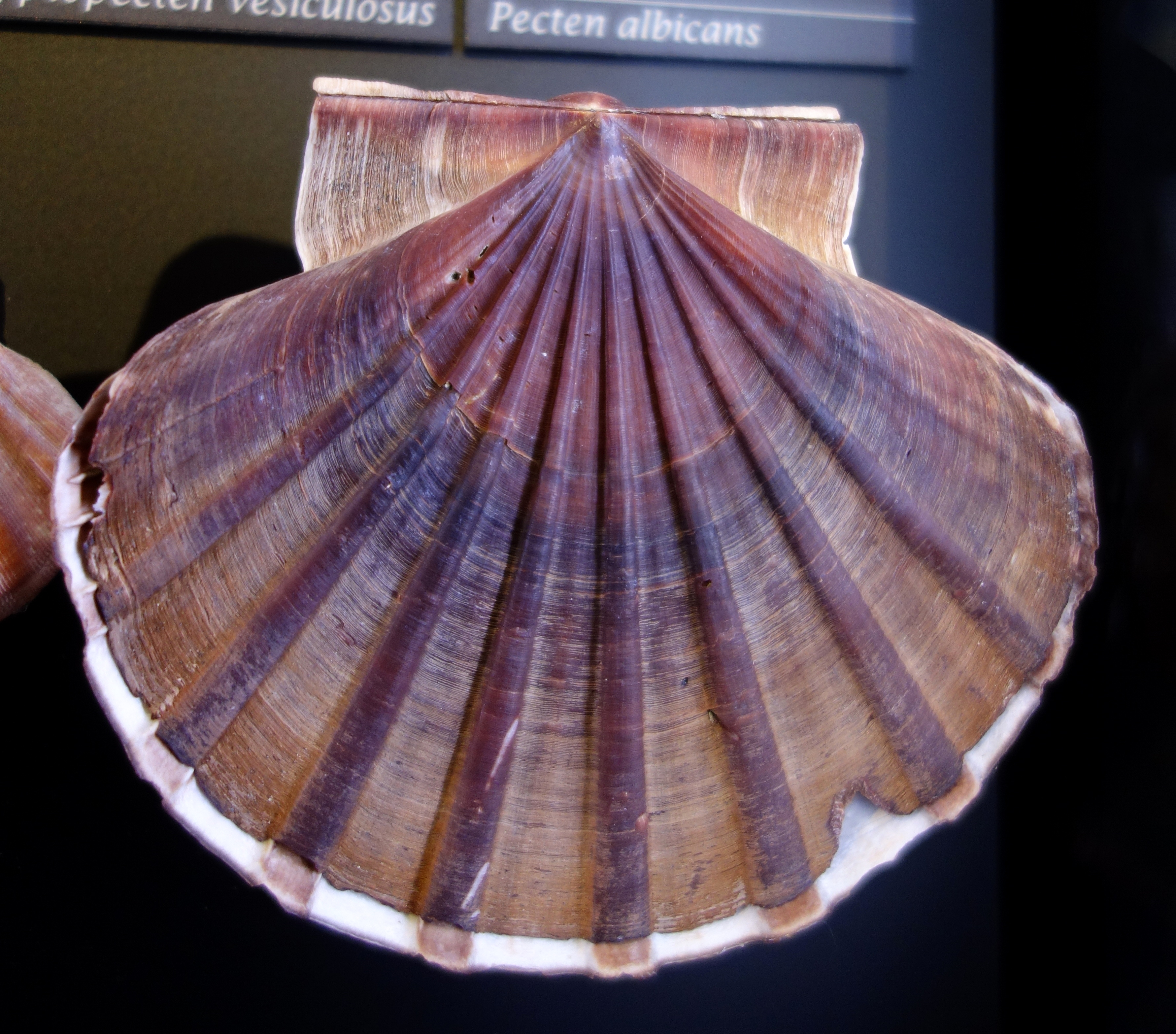 Exhibit in the National Museum of Nature and Science, Tokyo, Japan.